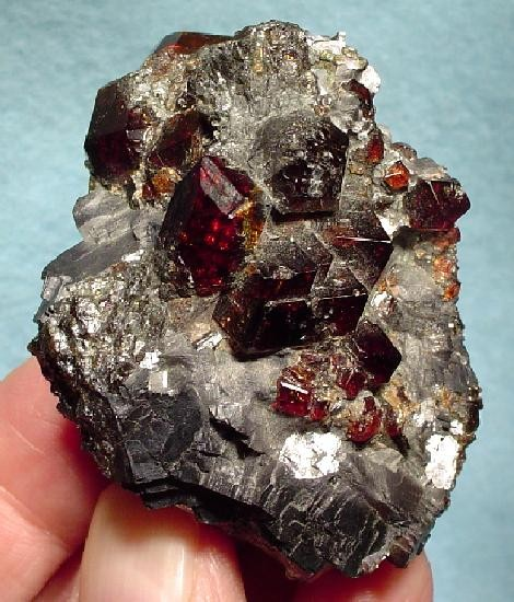 Spessartine, Galena Locality: Broken Hill, Yancowinna County, New South Wales, Australia (Locality at ) Size: 5.5 x 4.2 x 3.5 cm. Unusually, sharp, gemmy and lustrous, deep cherry-red spessartine garnet crystals to 1.5 cm are richly and aesthetically scattered on lustrous, crystallized to massive galena matrix on this CLASSIC and VERY SHOWY specimen from Broken Hill, Australia. Ex. George Elling Collection.